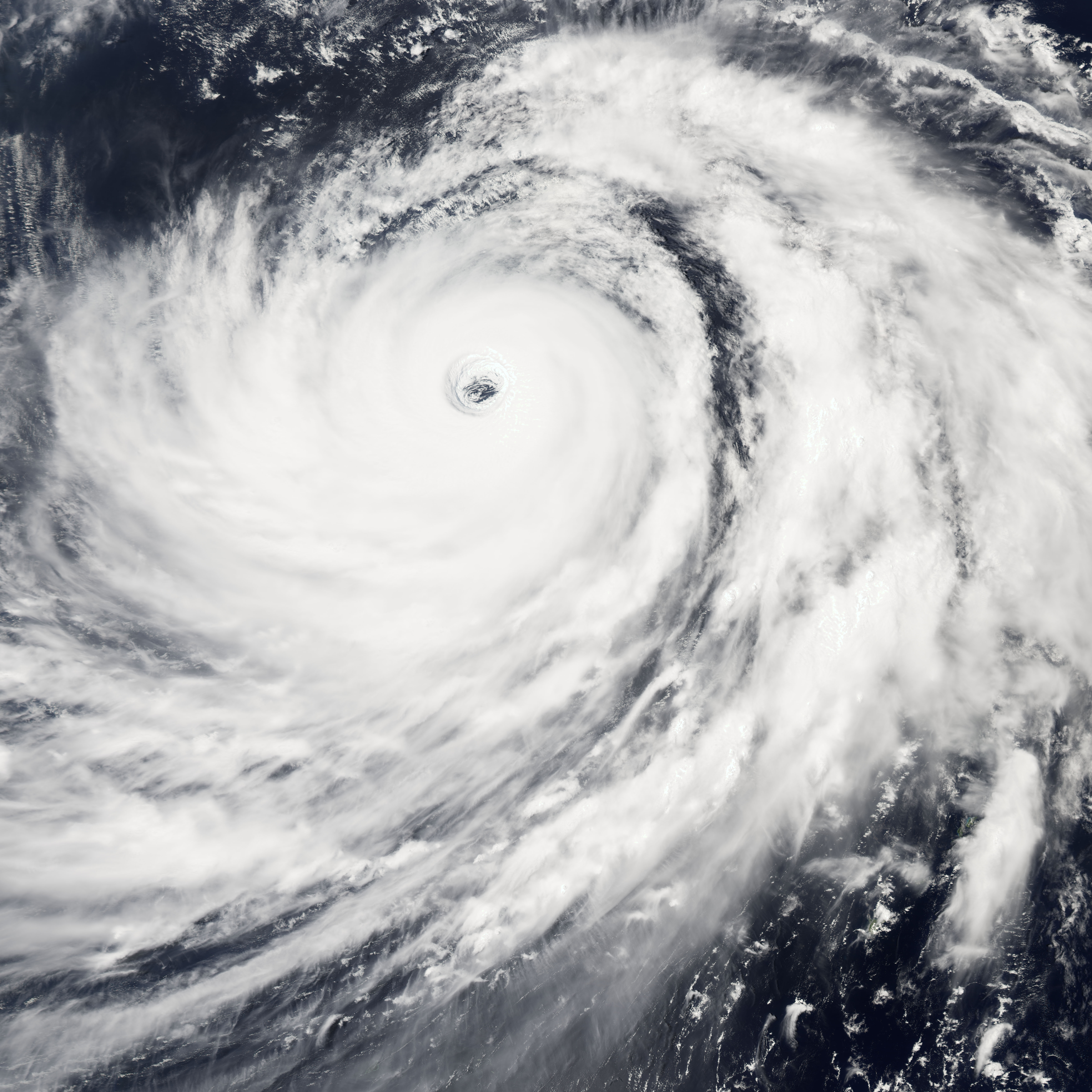 Super Typhoon Nabi was a Category 3 typhoon in the western Pacific when the Moderate Resolution Imaging Spectroradiometer (MODIS) on NASA’s Aqua satellite captured this image on September 2, 2005, at 11:55 a.m. Tokyo time. It had sustained winds of around 200 kilometers an hour (160 miles per hour) and was located roughly 1,000 kilometers (600 miles) from Saipan and Okinawa at that time. It was predicted to gather strength and make landfall at the southern end of the Korean peninsula early on September 7. However, the range of possible storm tracks as of September 2 takes in possibilities ranging from Shanghai on Asian mainland to Kyoto on the southern end of the Japanese Islands.